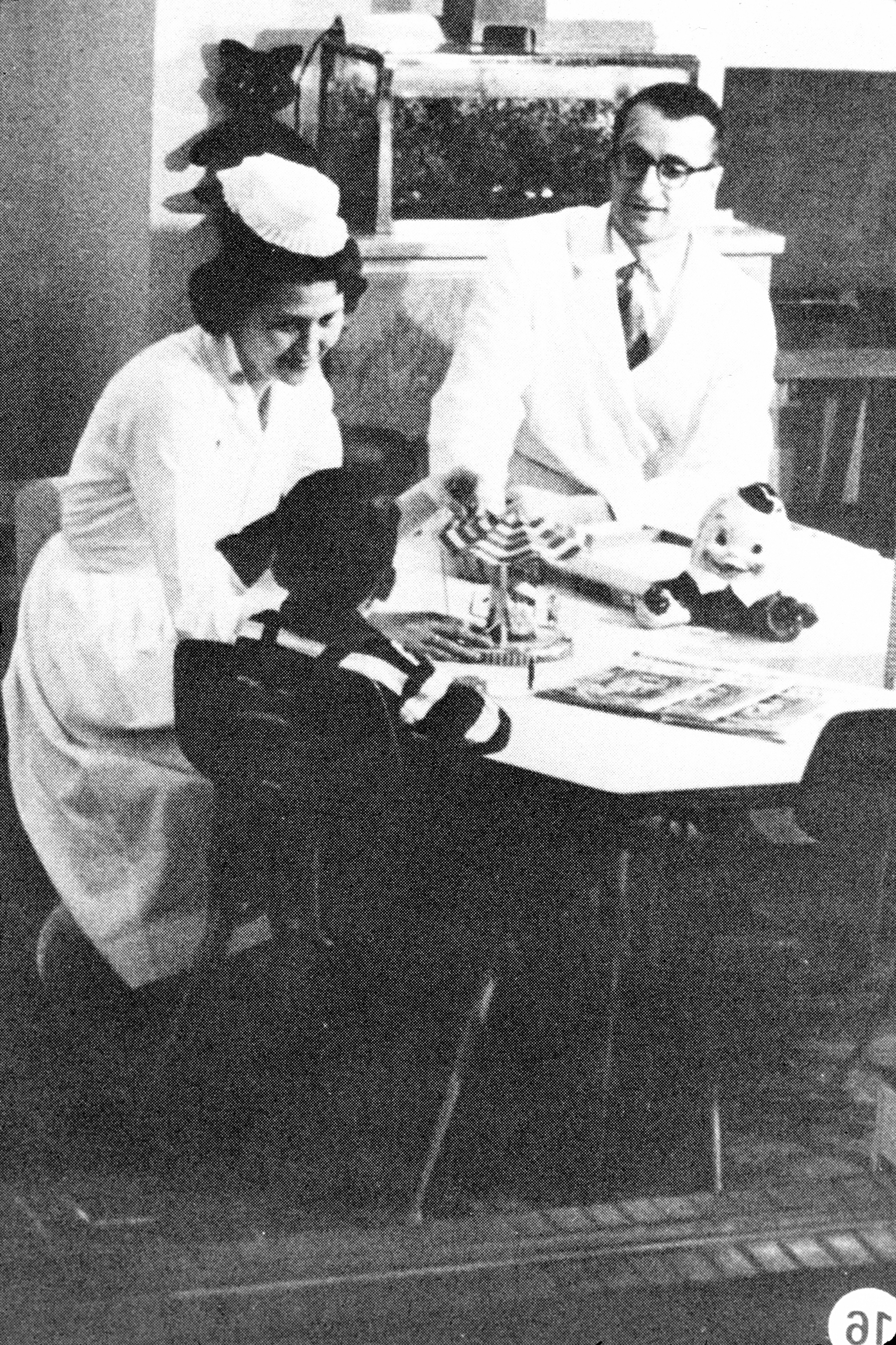 Title Emil Frei Description Emil Frei with nurse and child patient. Emil Frei is the former physician-in-chief of the Dana-Farber Cancer Institute Topics/Categories Historical -- People People -- Adult People -- Child People -- Health Professional and Patient Type B&W, Photo Source NCI; Dana-Farber Cancer Institute